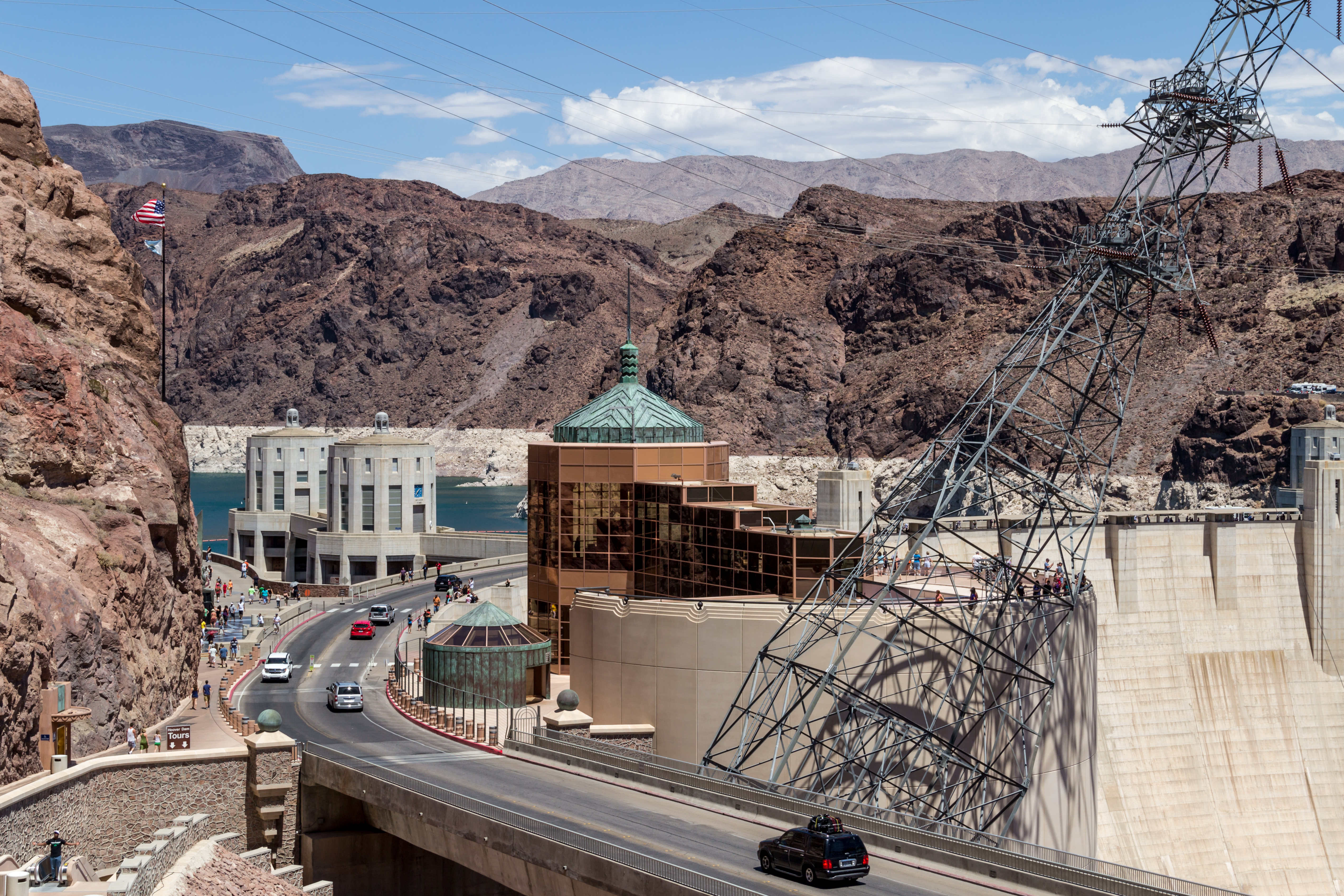 Hoover Dam on the side of Nevada (Nevada/Arizona, USA)